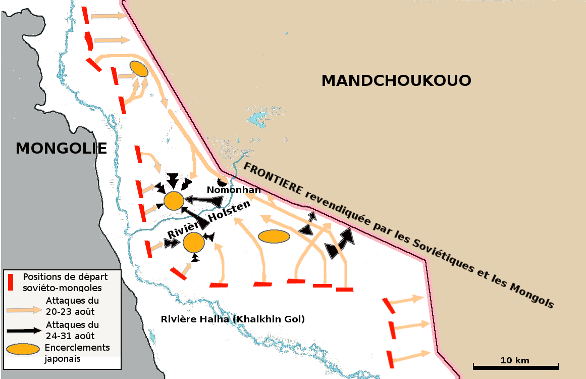 Simplified map of the soviet counter-attack of august 1939 against the Imperial Japanese Army.